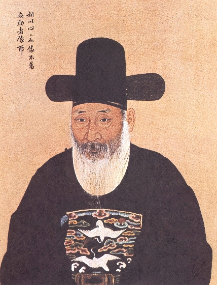 Portrait of Hong NakSeong